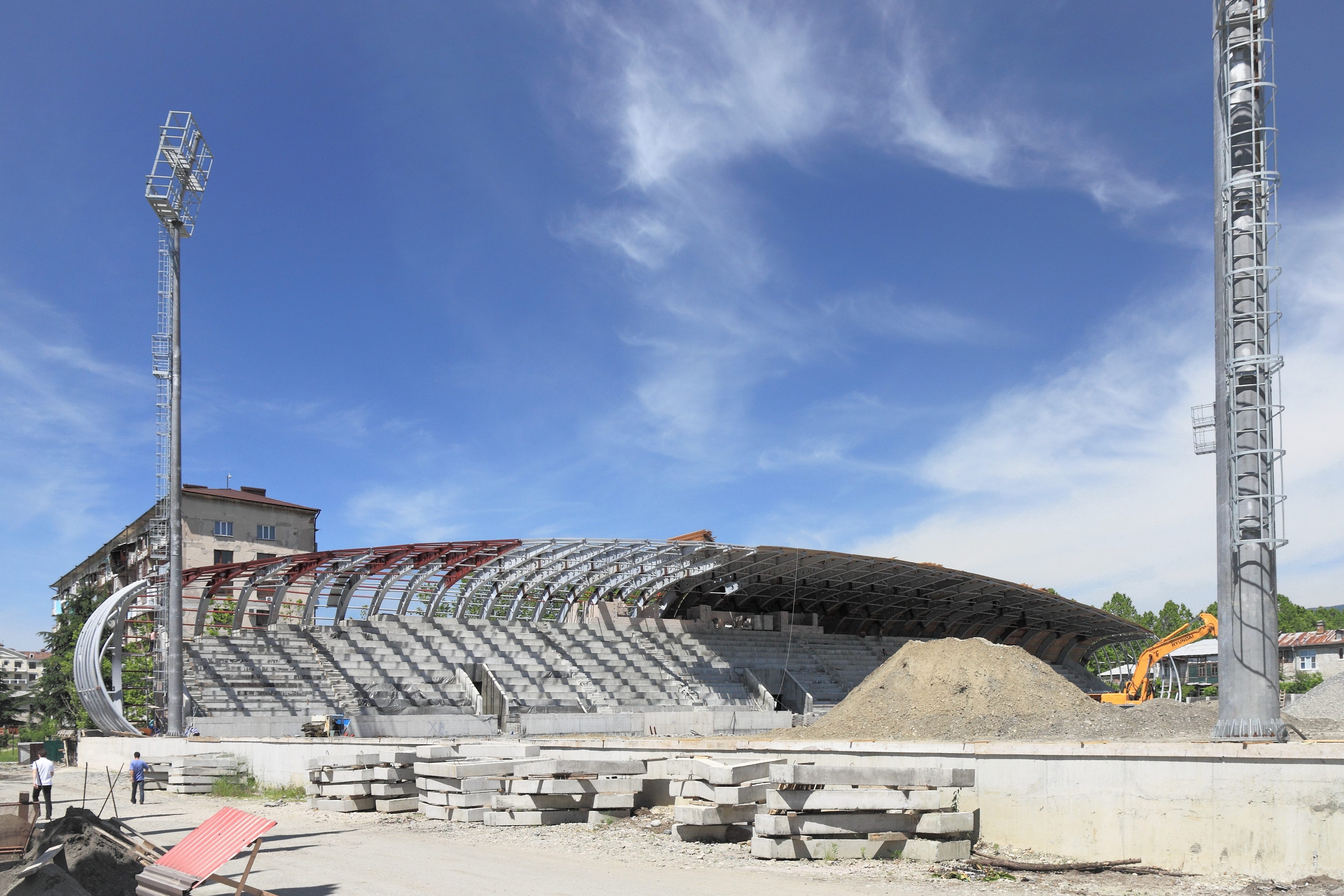 The stadium "Dynamo" under construction. Sukhumi, Abkhazia.